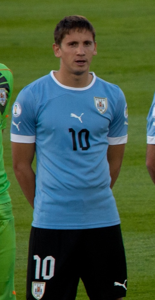 Uruguayan football player, Gastón Ramírez, singing the uruguayan national anthem before playing for the national team against Chile in the 3rd matchday of the 2014 FIFA World Cup southamerican qualifiers in the Estadio Centenario of Montevideo.